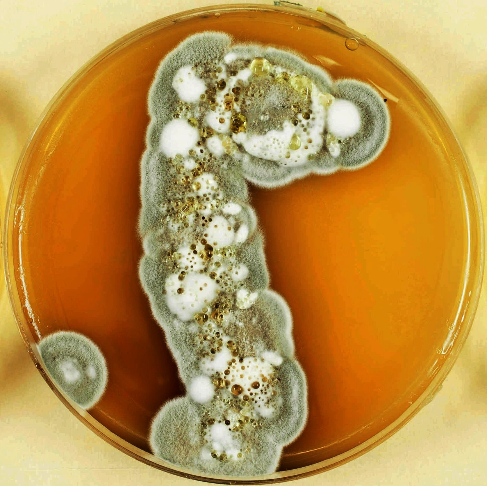 The photo displays a typical grey colony of Pseudogymnoascus destructans on SDA medium. This photo was cropped to show only the culture.